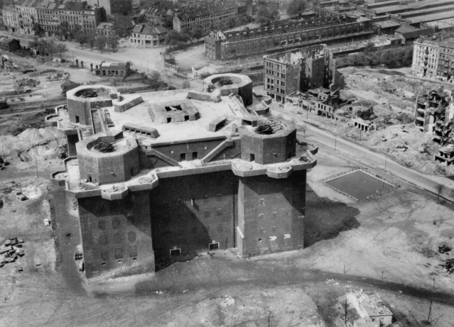 The Flakturm IV in Hamburg, Germany. It measures 75 by 75 m, with a height of 39 m. Notice the four twin 12.8 cm Flak Zwilling 40 guns.